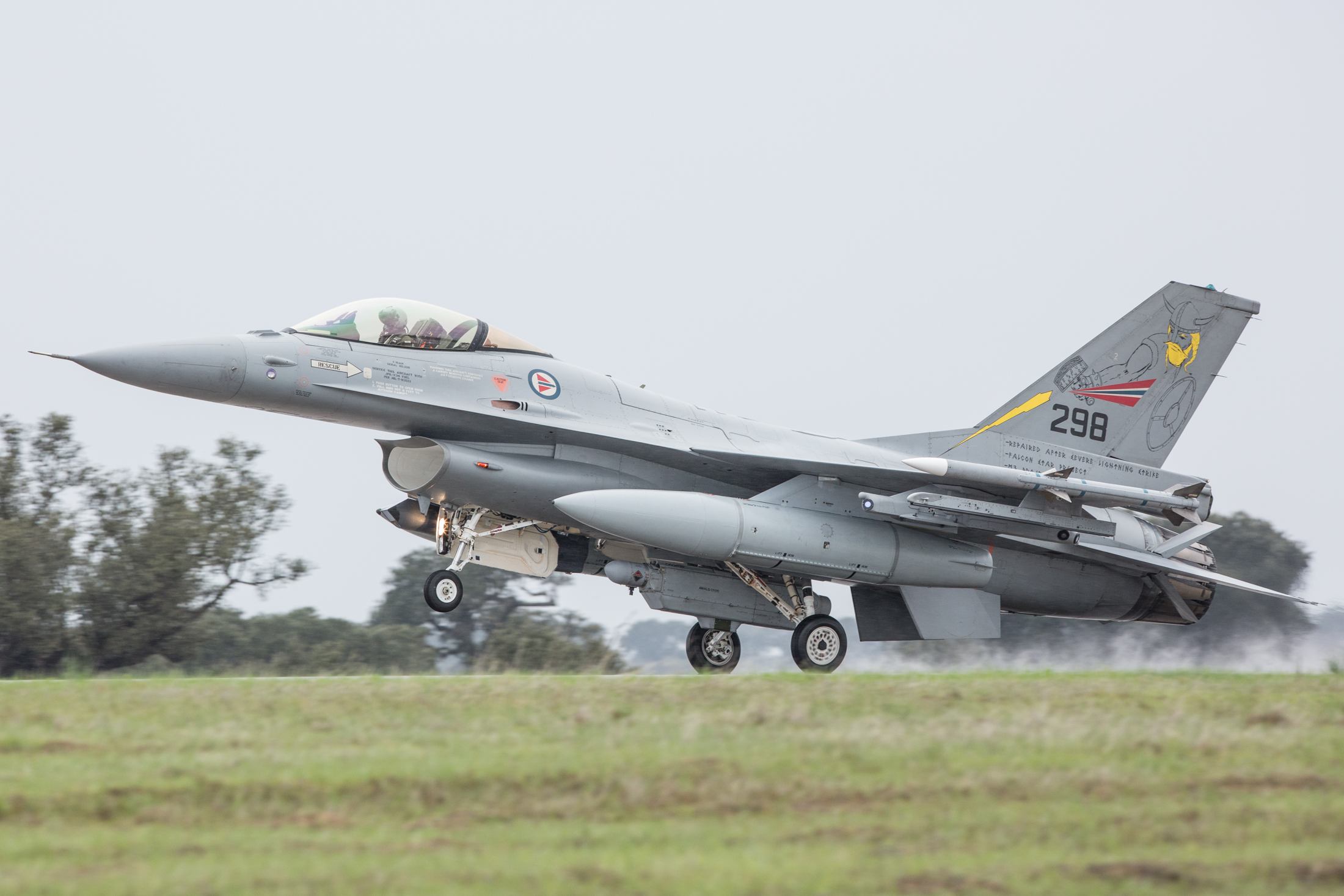 Sun or rain - always ready. A Norwegian F-16 landing at Beja Air Base, Portugal on October 24, 2015 during Trident Juncture 15. Photo: OR-7 Christian Timmig, NMIC TRJE15 Beja